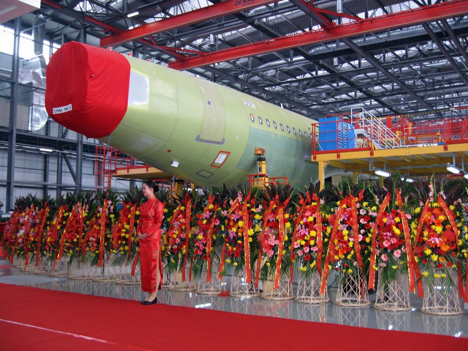 Airbus Tianjin Final Assembly Line - A320 China 1.